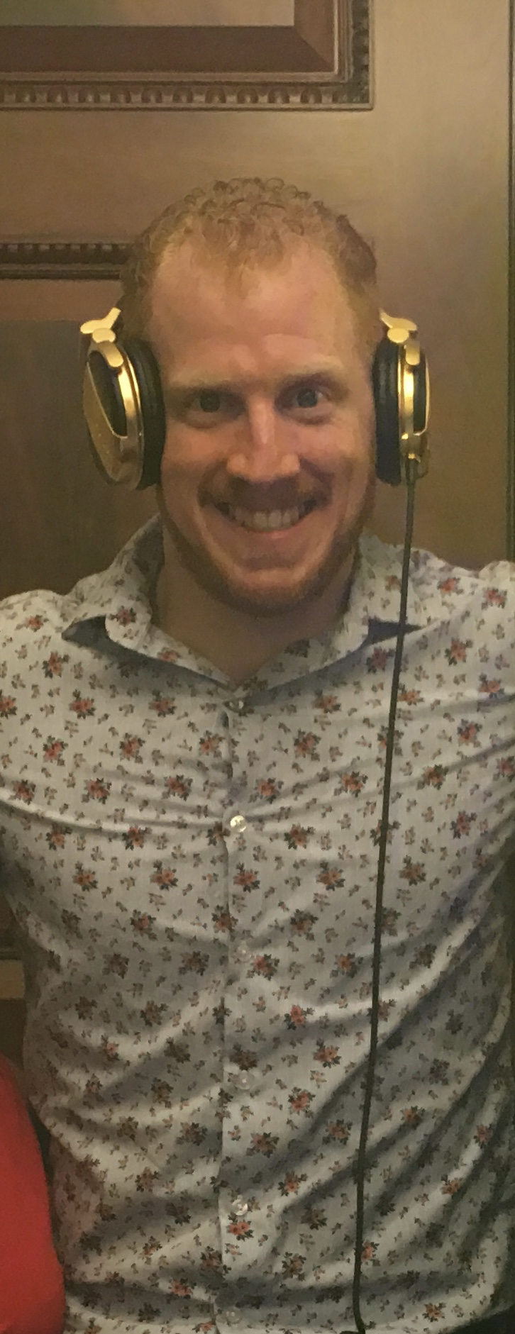 Nico DiMarco at Boston University (November, 2017)